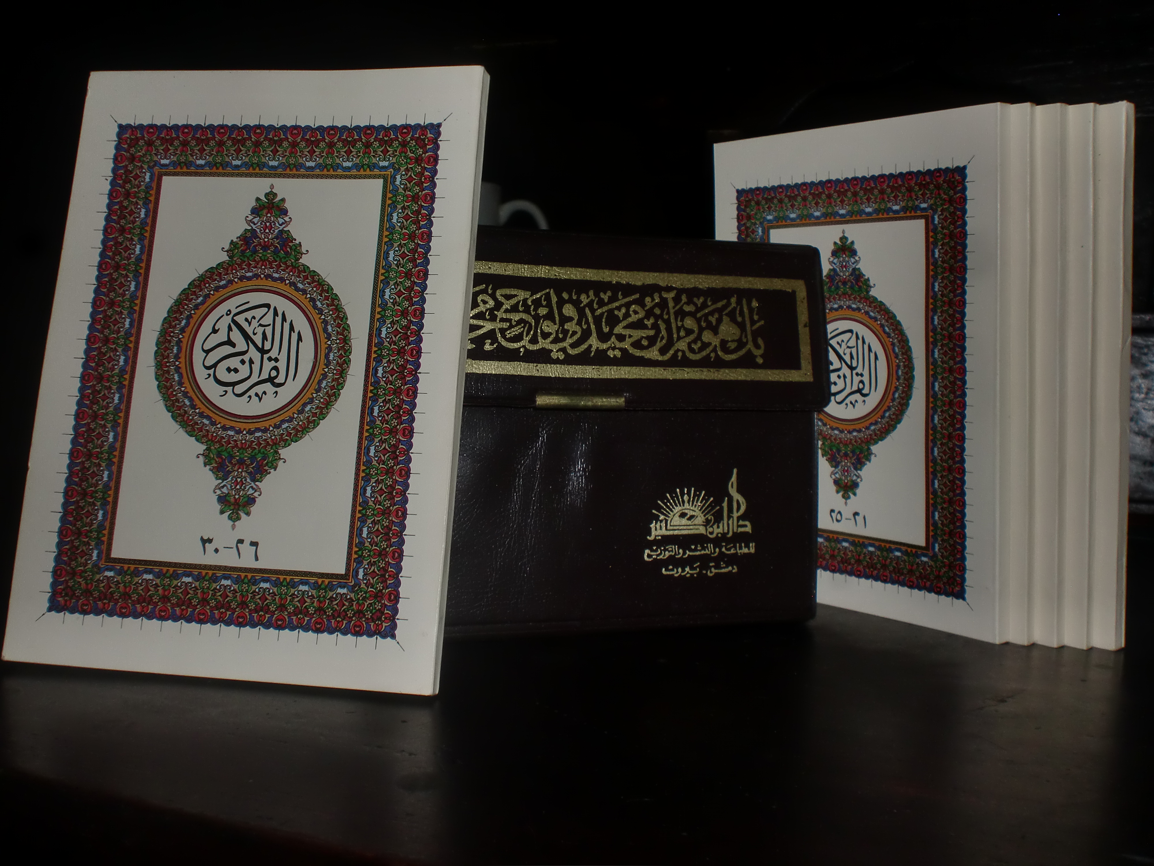 Quran divided into 6 books. Book 1 juz' 1-5, book 2 juz' 6-10, book 3 juz' 11-15, book 4 juz' 16-20, book 5 juz' 21-26, book 6 juz' 26-30. Published by Dar Ibn Kathir, Damascus-Beirut.